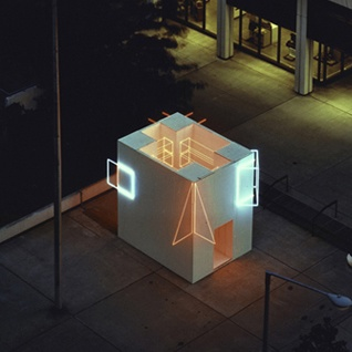 16 x 16 x 12 ft, Painted plywood and neon. Created for the 1973 "Sculpture Off the Pedestal" exhibit in Grand Rapids, MI, USA.